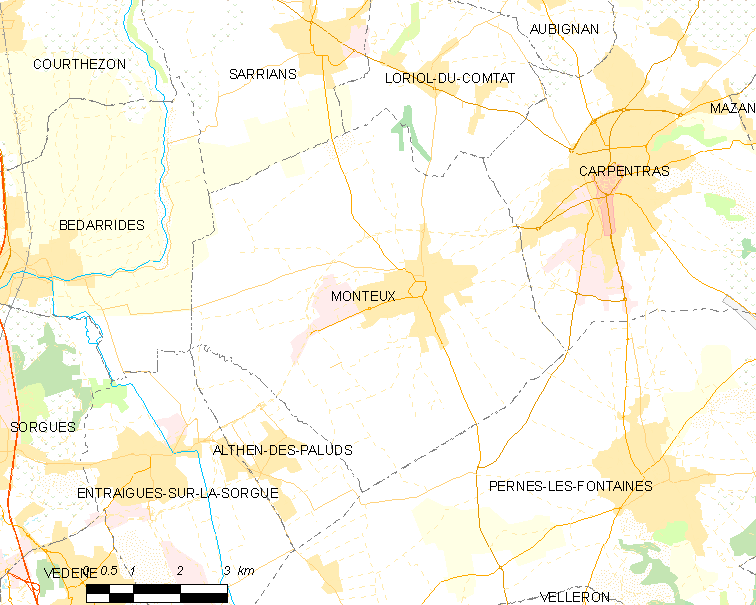 Map of French municipality Monteux